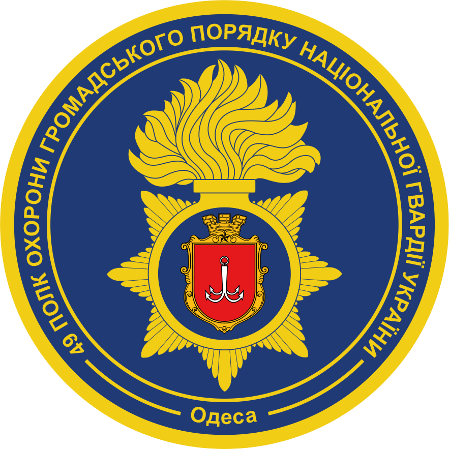 Shoulder sleeve insignia, 49 Regiment of Public Order Protection